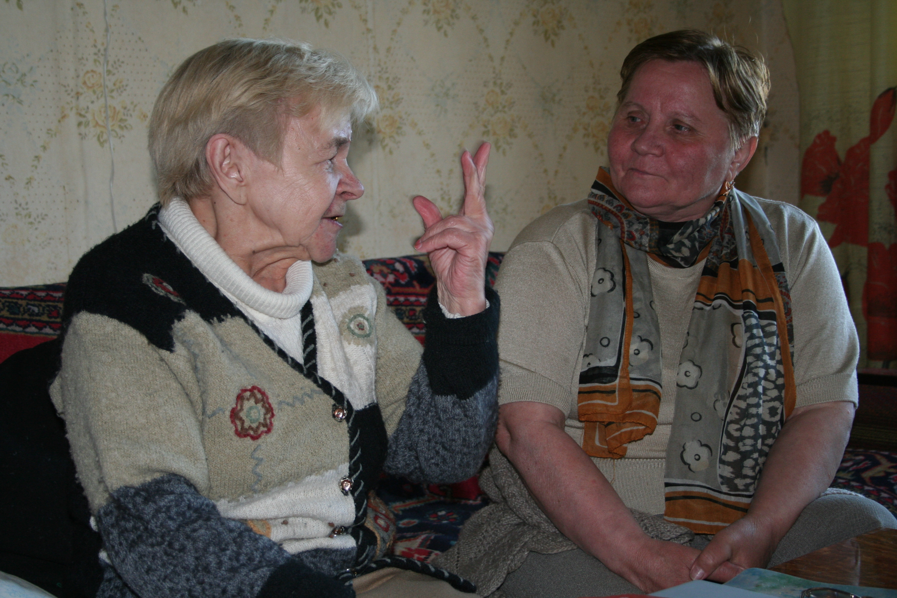 Nina Afanasyeva (right) interviewing Zoya Gerasimova (one of last Ter Sami speakers) in Murmansk (July 2006; Photo: Michael Rießler)